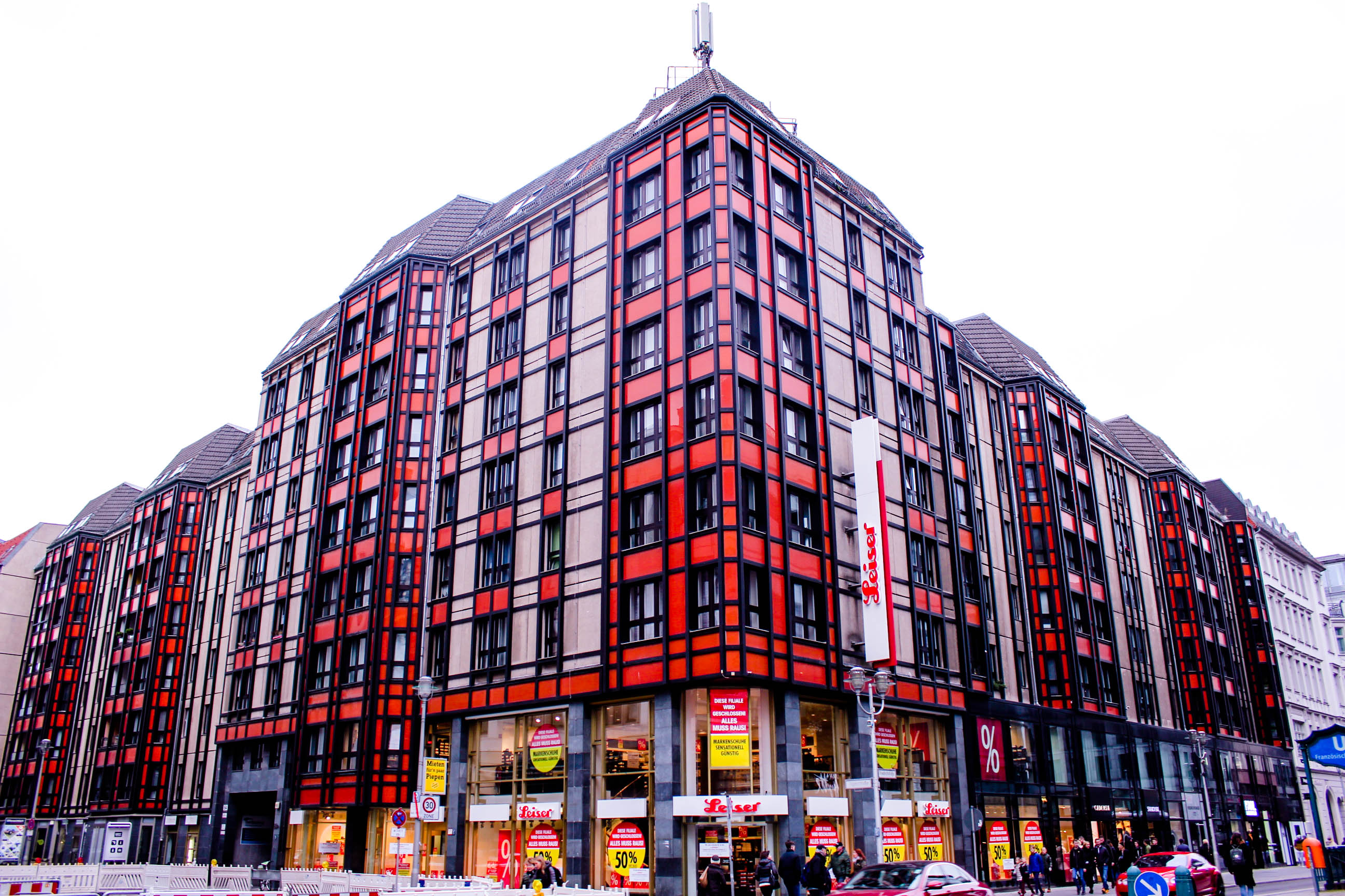 Haus auf der Friedrichstraße in Berlin